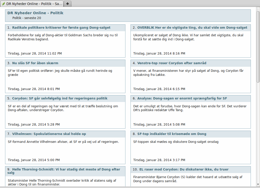 Screendump: RSS-feed from dr.dk shown in Firefox